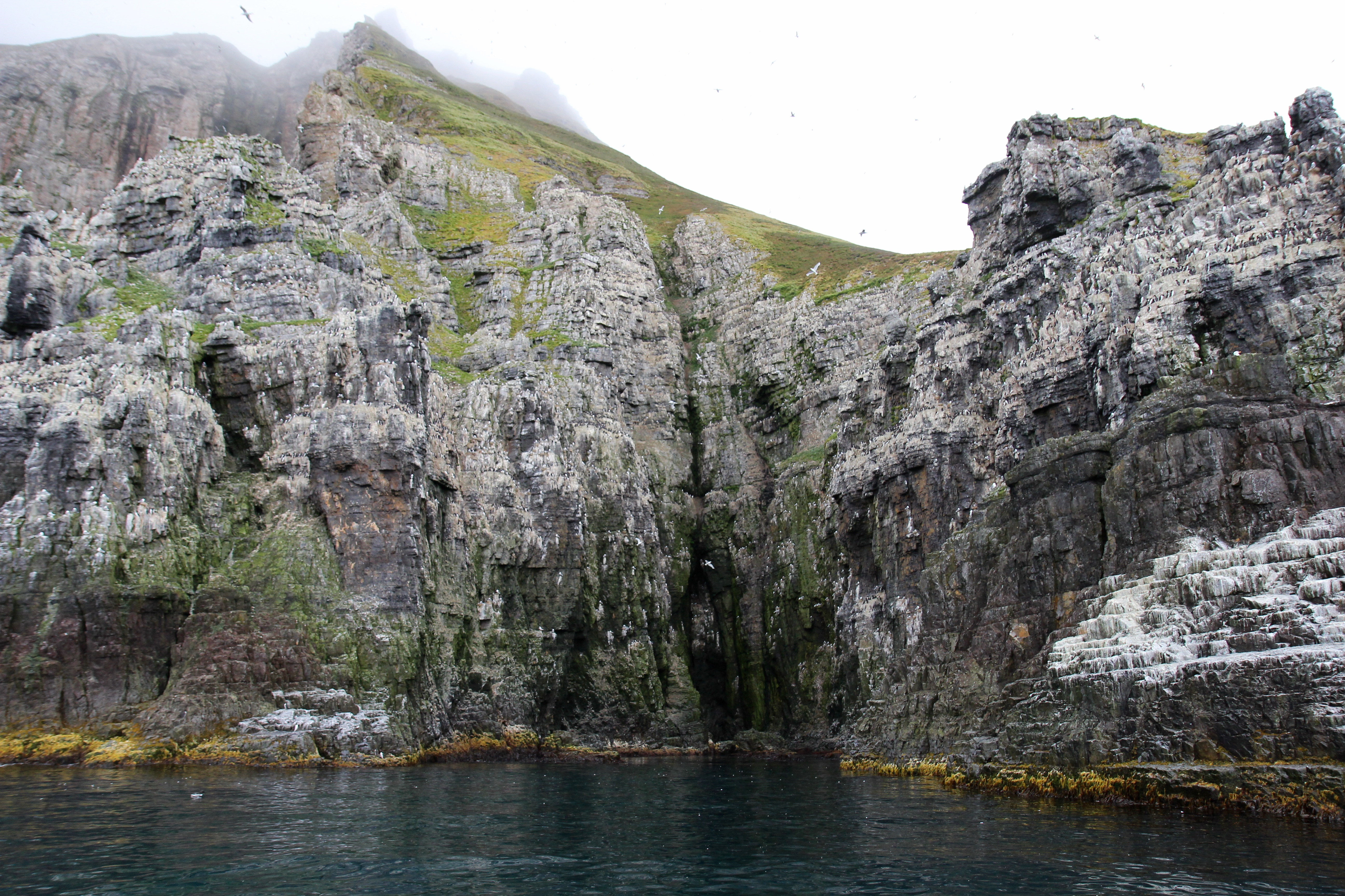 Pictures taken on my Silversea Silver Explorer Arctic cruise. For more on the cruise and dates visit bit.ly/ArcticCruise